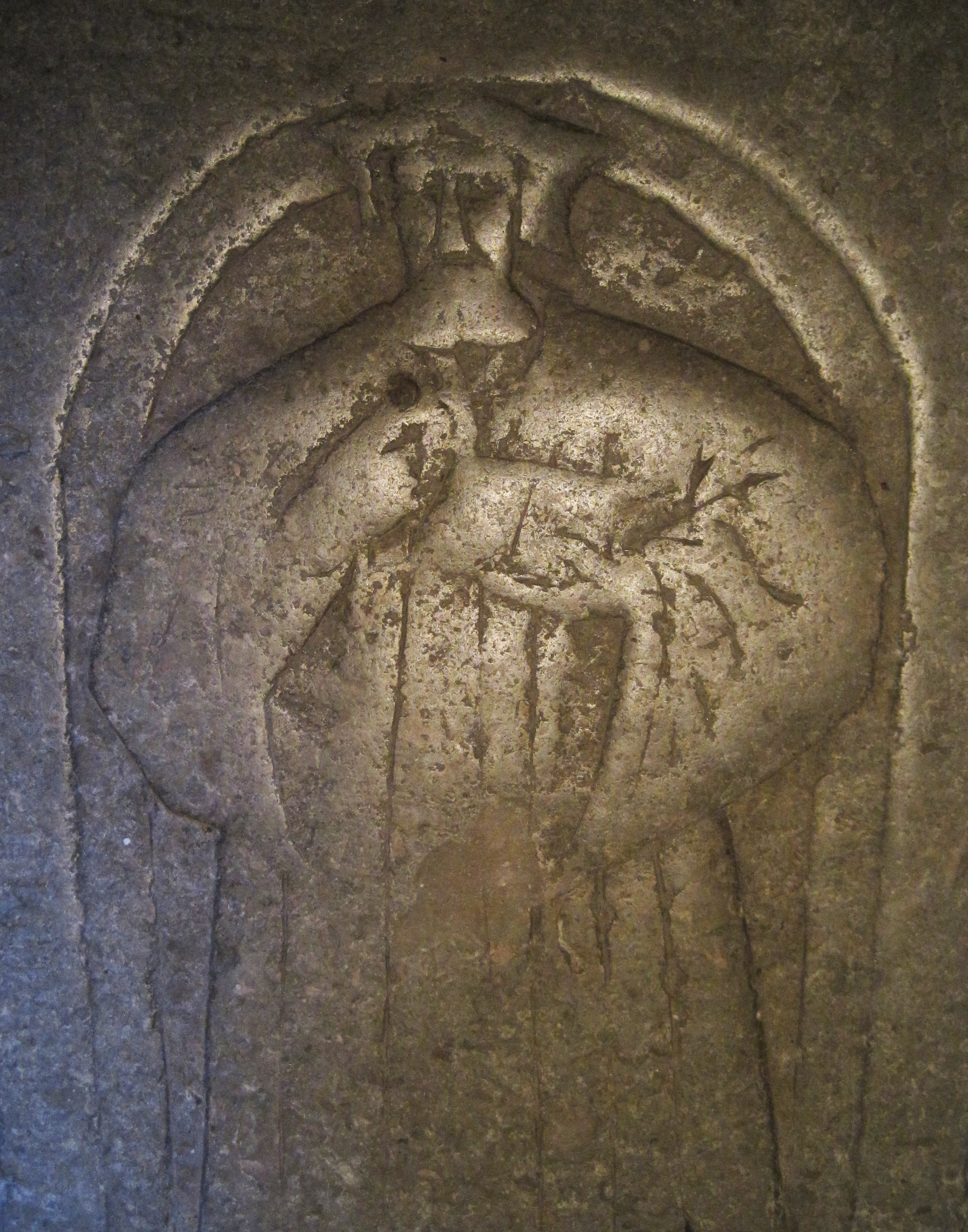 Detail of ledger stone depicting Frans Vormordsen (1491-1551), the first protestant bishop of Lund (1536-1551). The worn stone is placed in the crypt of Lund Cathedral.